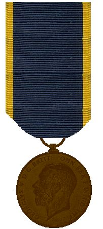 Edward Medal 1910 - 1936